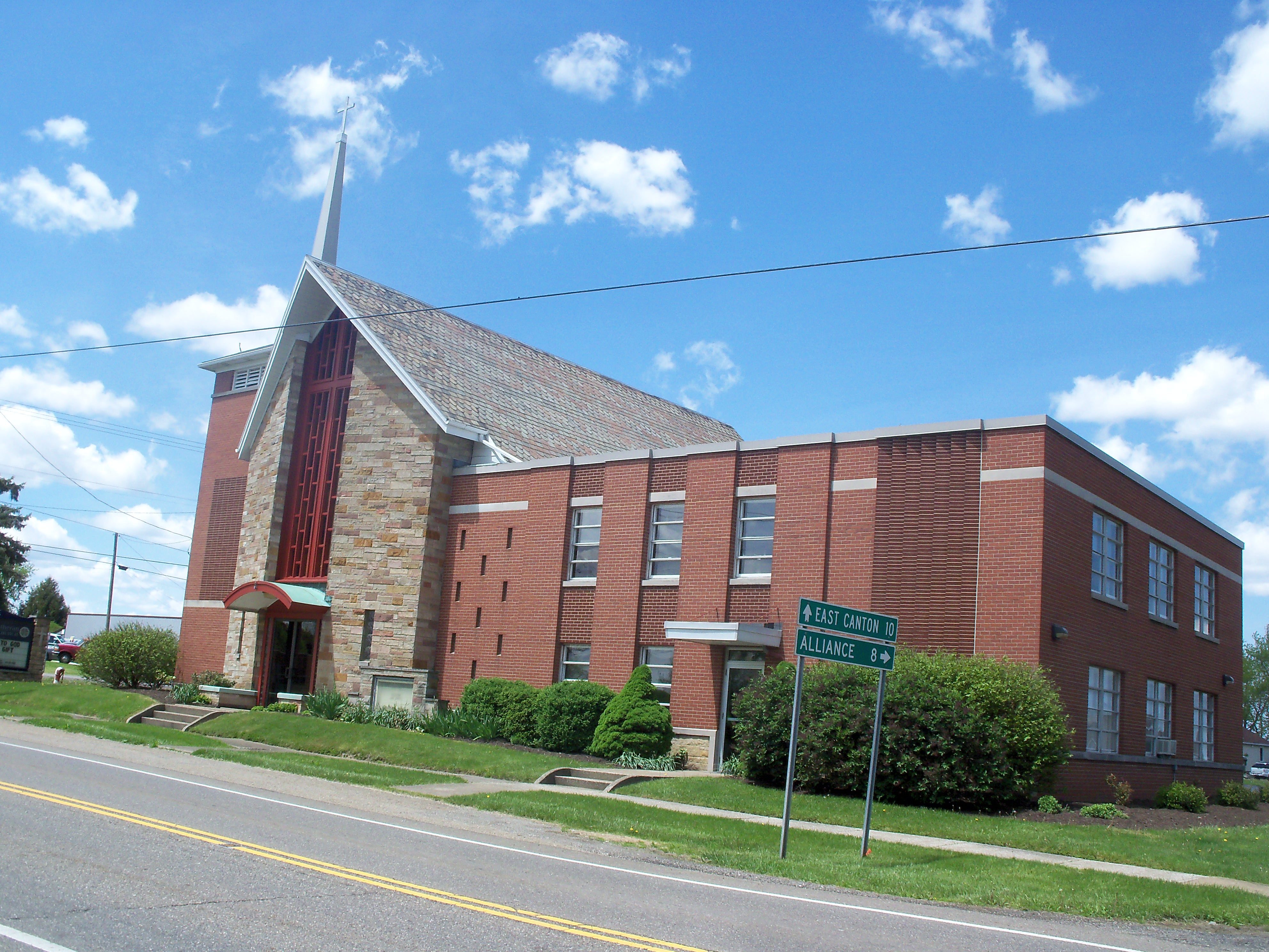 St. John's Evangelical Lutheran Church is in New Franklin, Stark County, Ohio